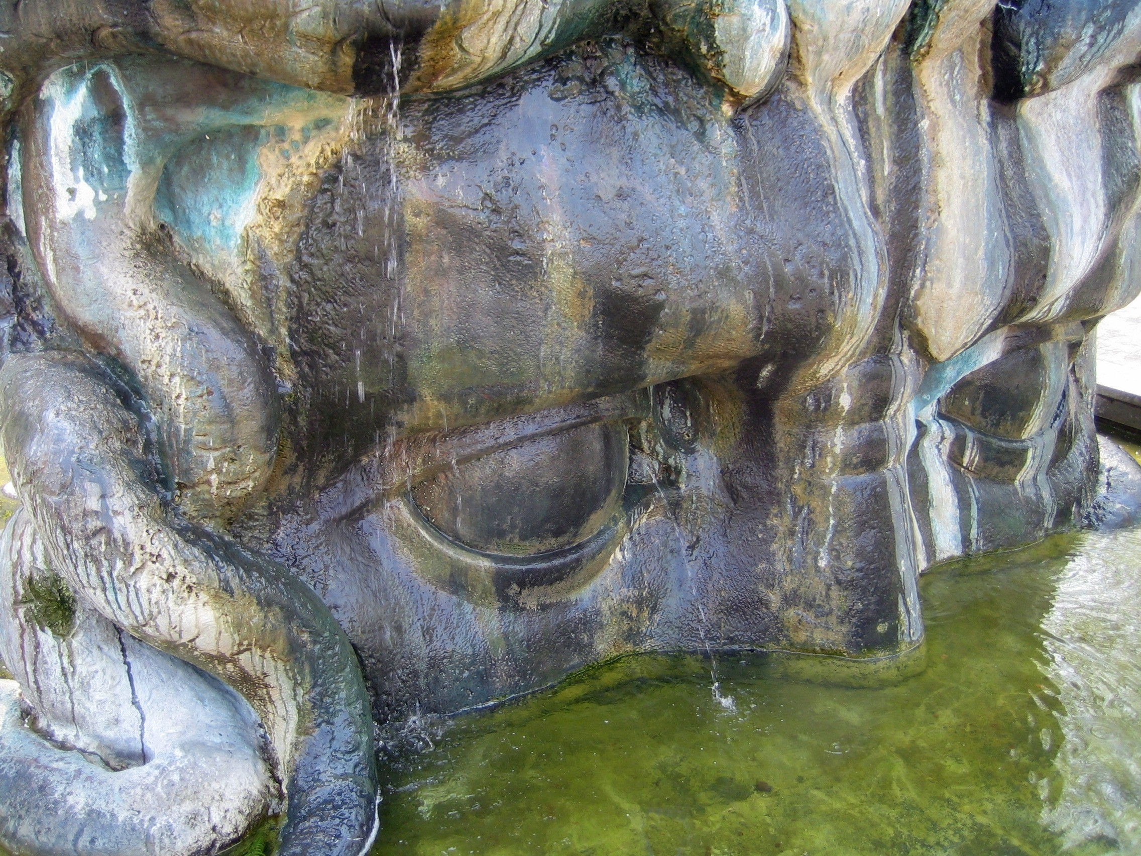 Fountain at Henriettenplatz in Berlin-Charlottenburg (Germany). Theme: The head of Medusa (Caput medusae). Partial view.